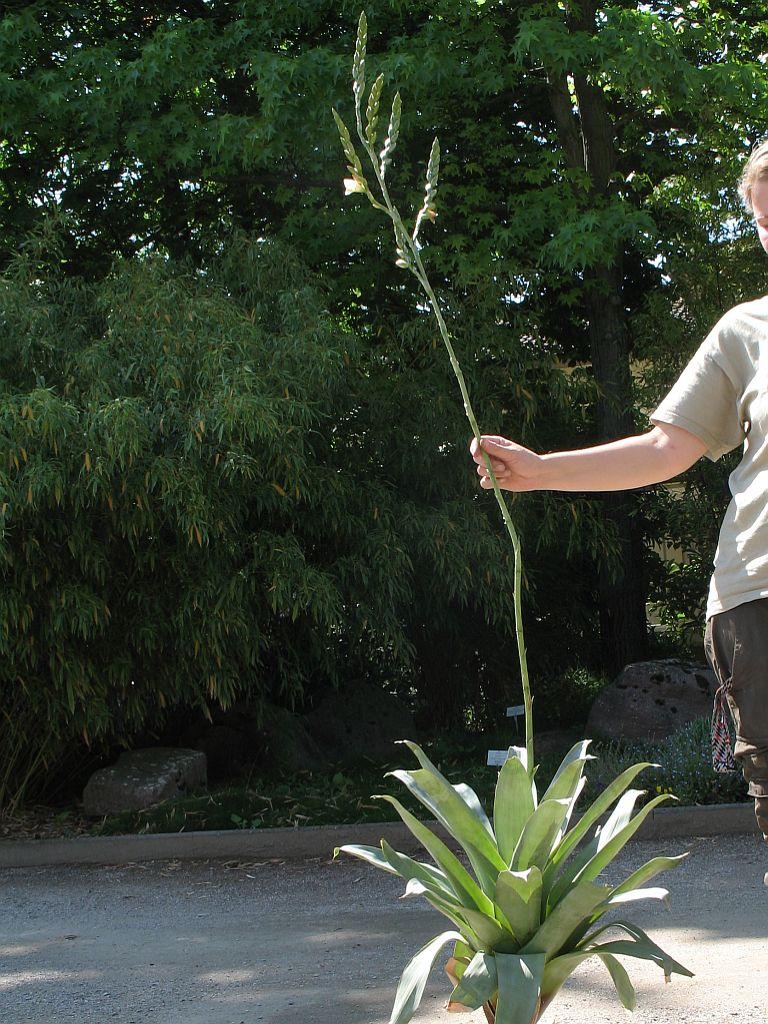 Vriesea nanuzae in cultivation at the Botanical Garden of Heidelberg, Germany.